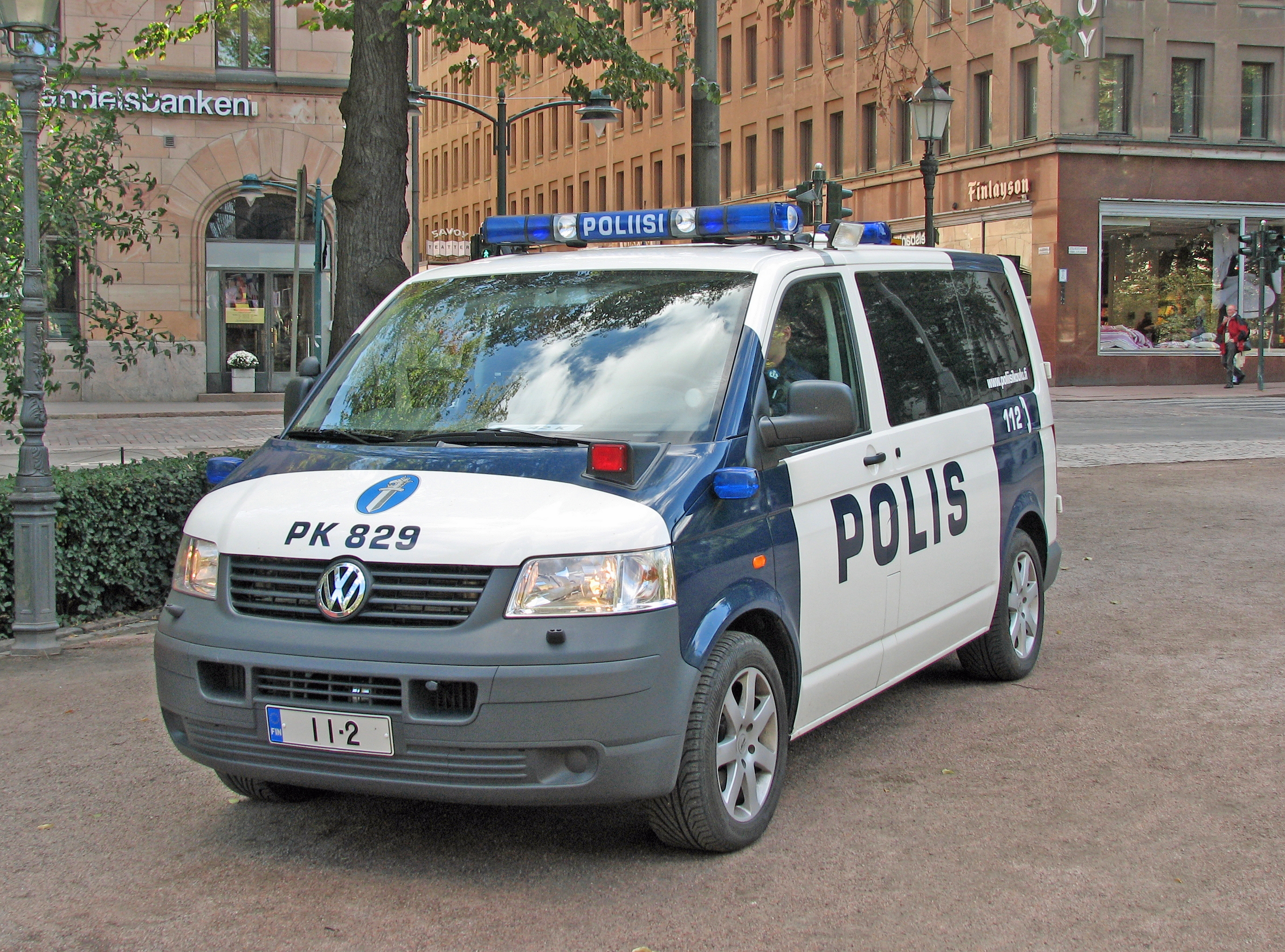 police car in downtown Helsinki, Finland. Note the unusual license plate. Photographed with permission from the police.